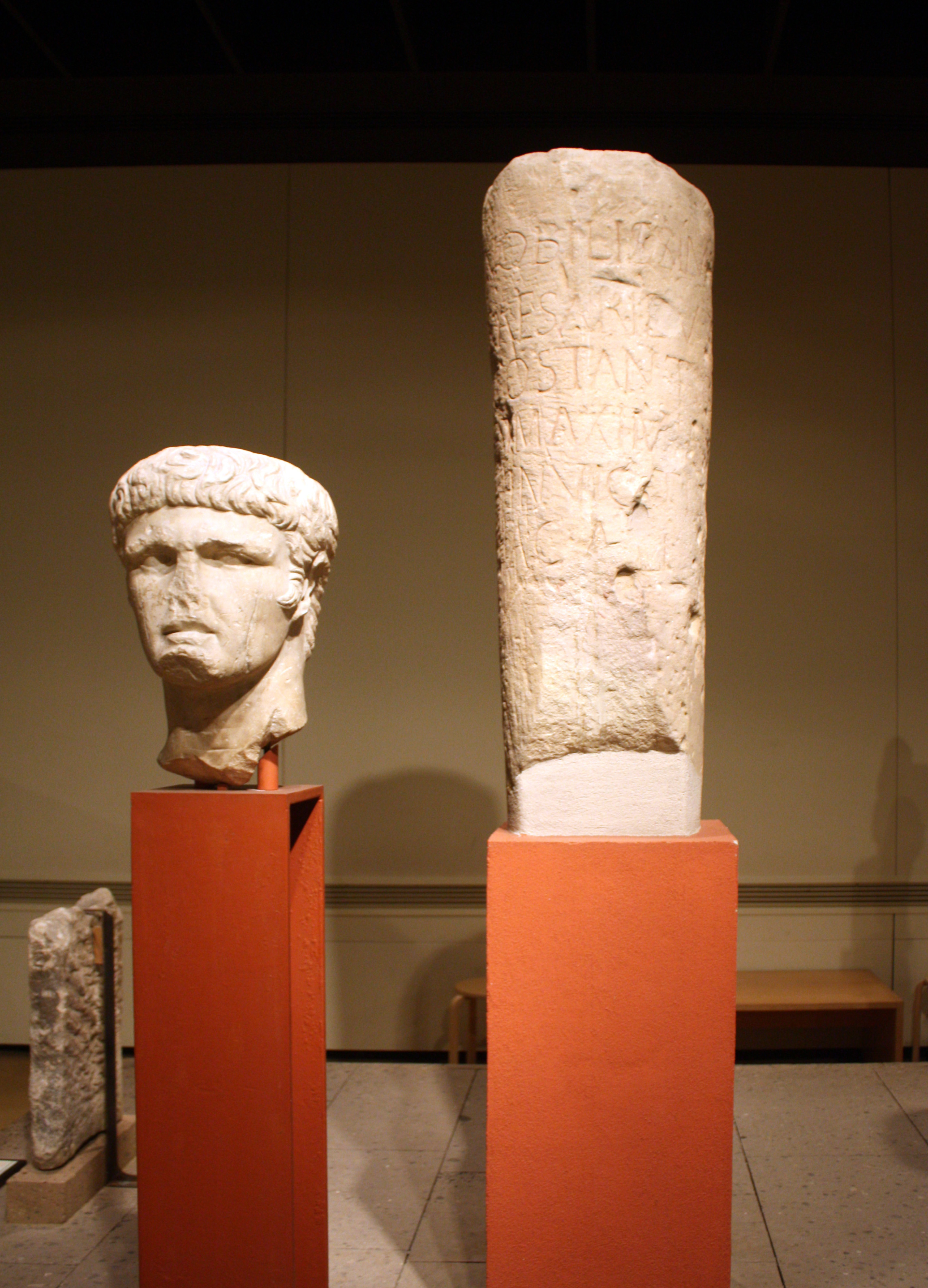 Roman milestone, manufactured between the 3rd and 5th century. Found 1903 in Cologne close to the the inner city, now “Römisch Germanisches Museum“.